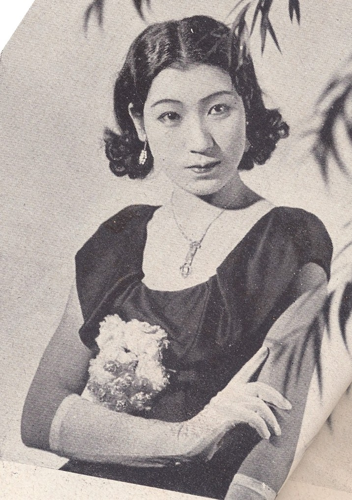 Portrait of the actress Fumiko Yamaji